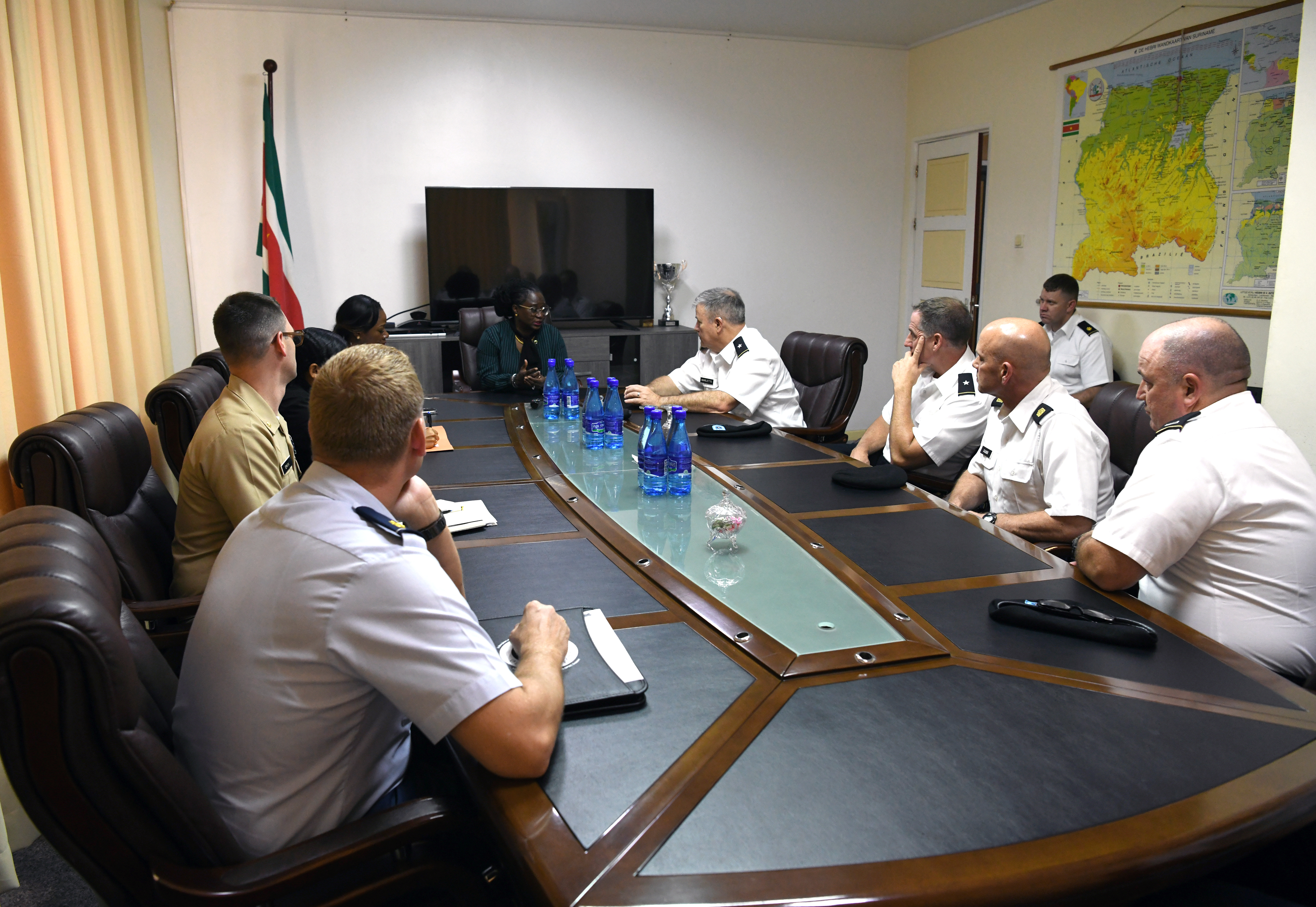 SD Guard leaders visit Suriname to bolster state partnership